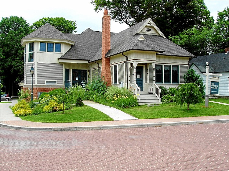 Douglas Library, Hebron, Connecticut. Part of the Hebron Center Historic District.